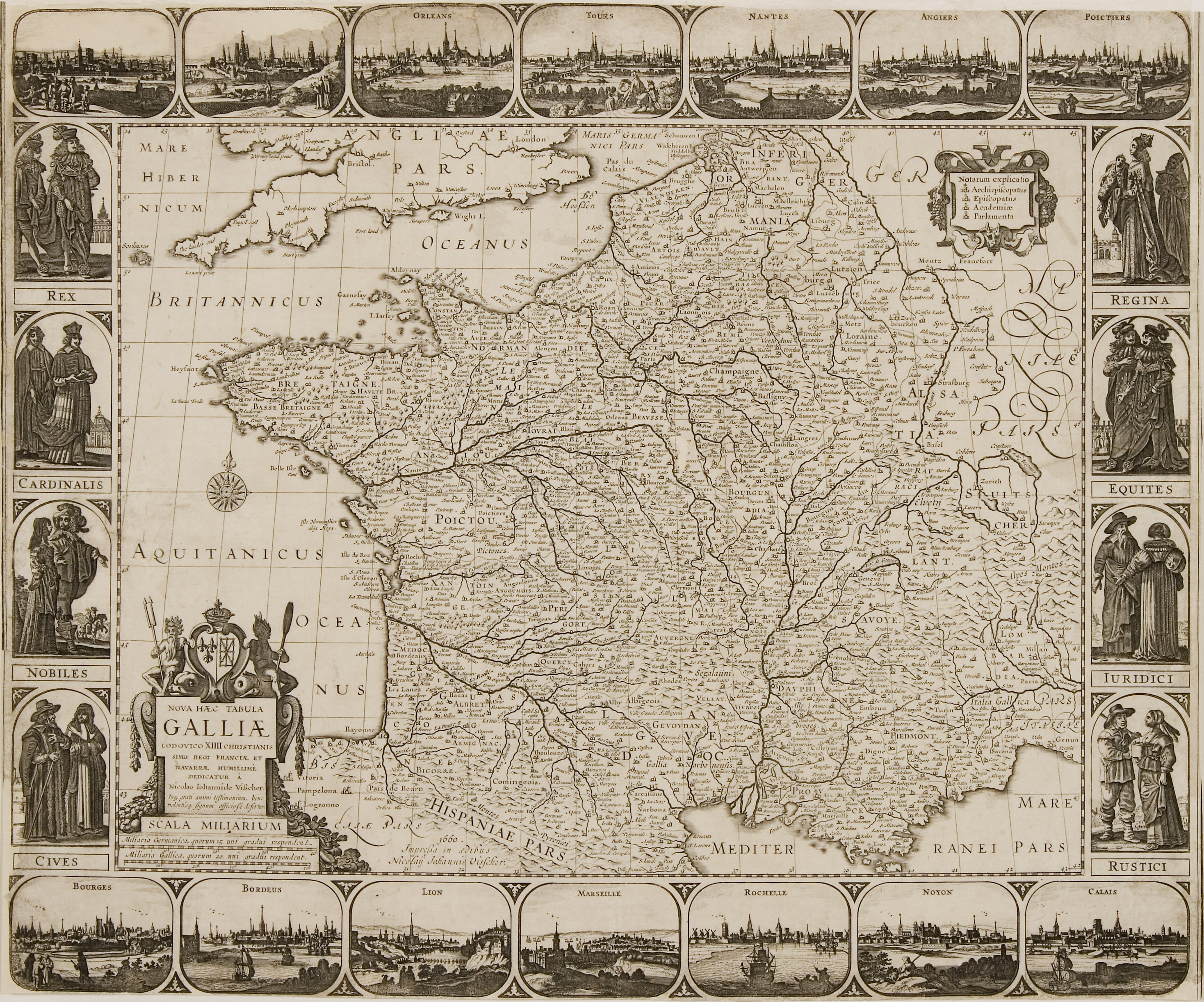 France par Nicolas Visscher